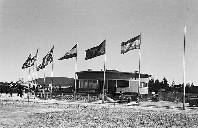 Oslo Airport, Fornebu on opening day: 1 July 1939. In the background a Focke-Wulf Fw 200 aircraft from Det Danske Luftfartselskab.